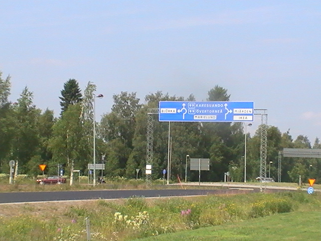 Swedish national road, Riksväg 99 at Haparanda. In photo you can see the roundabout of Almarksvägen.